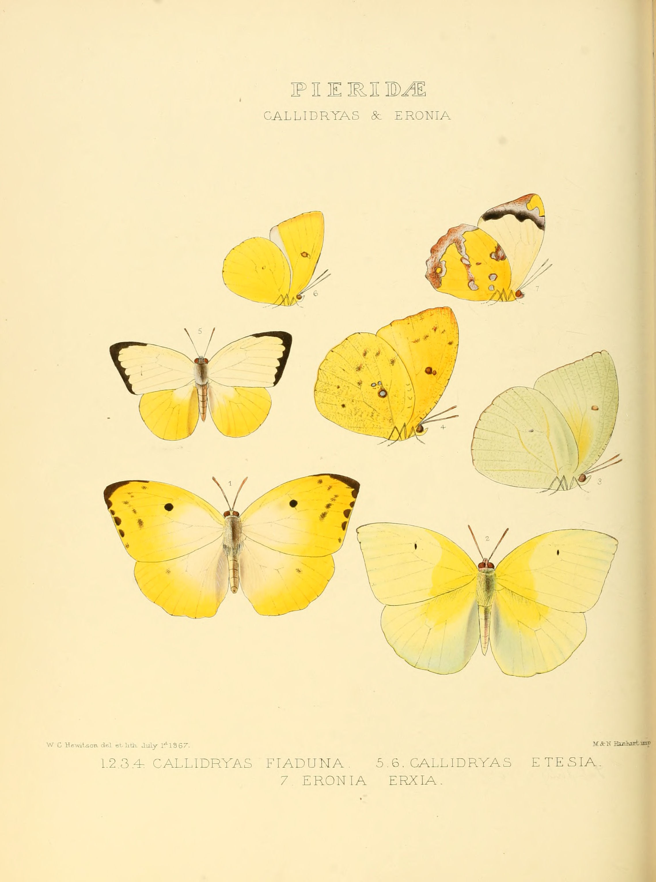 Plate: Callidryas & Eronia Callidryas fiaduna. Figs. 1 & 4 female, 2 & 3 male. Accepted as Catopsilia thauruma (Reakirt, 1866). Callidryas etesia. Figs. 5, 6. Accepted as Catopsilia scylla (Linnaeus, 1763). Eronia cleodora. Fig. 7. Accepted as Eronia cleodora Hübner, 1823. (It appears from the text that Hewitson figured this as E. erxia - hence the plate caption - but then decided that name belonged to a different species. They are both accepted as cleodora.)